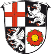 Coat of Arms of Brechen